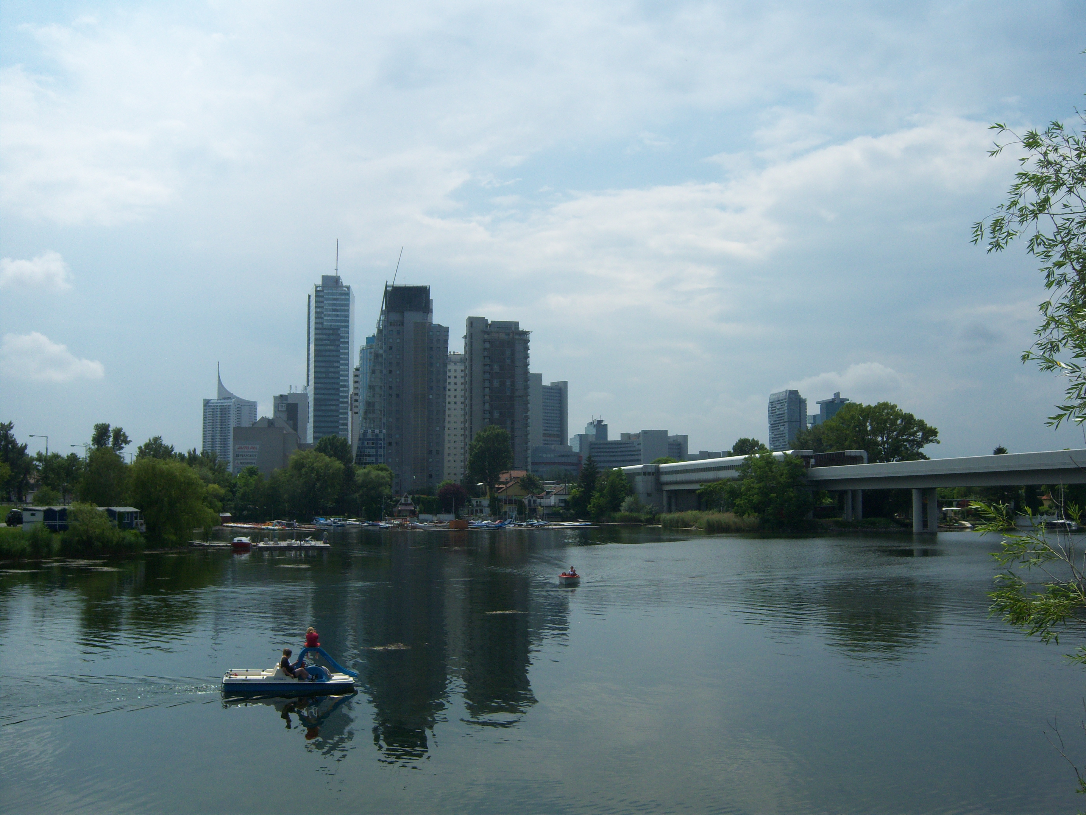 Old Danube